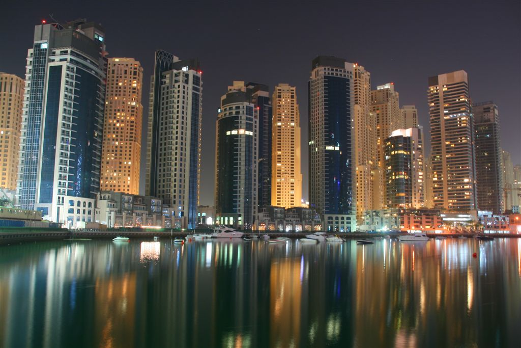 Dubai Marina by night